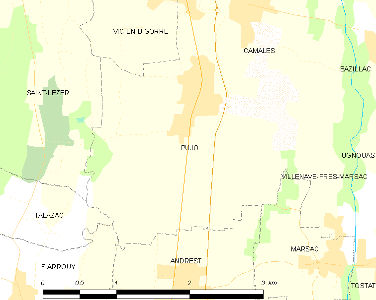 Map of French municipality